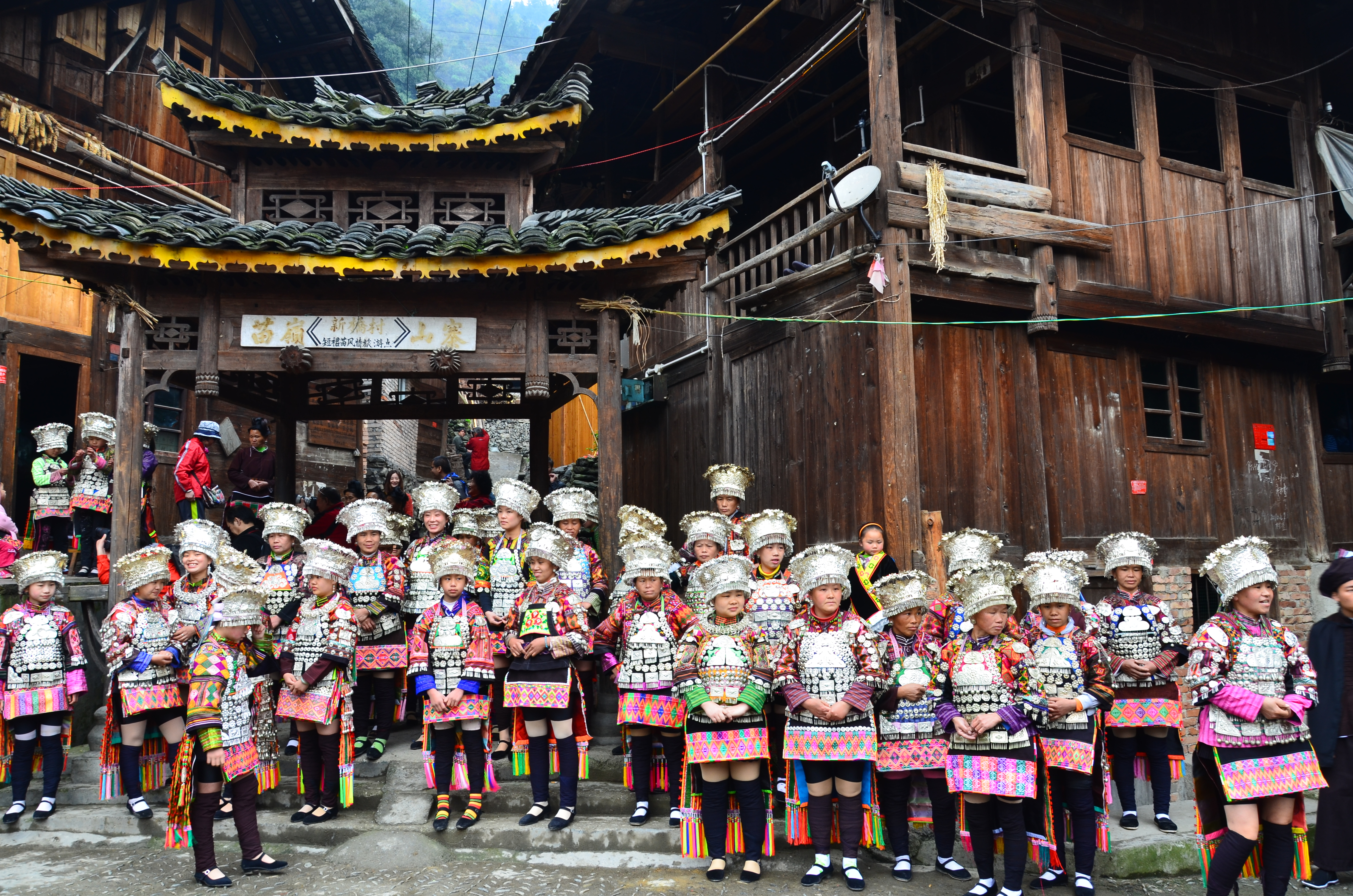 Sisters` Festival of Miao in Xinqiao village, Datang township, Leishan county, Qiandongnan prefecture, Guizhou, China.